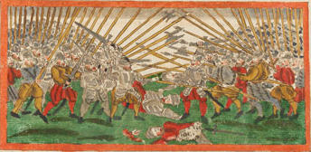 Picture by Johann Jakob Wick illustrating his report about the Battle of Zutphen.